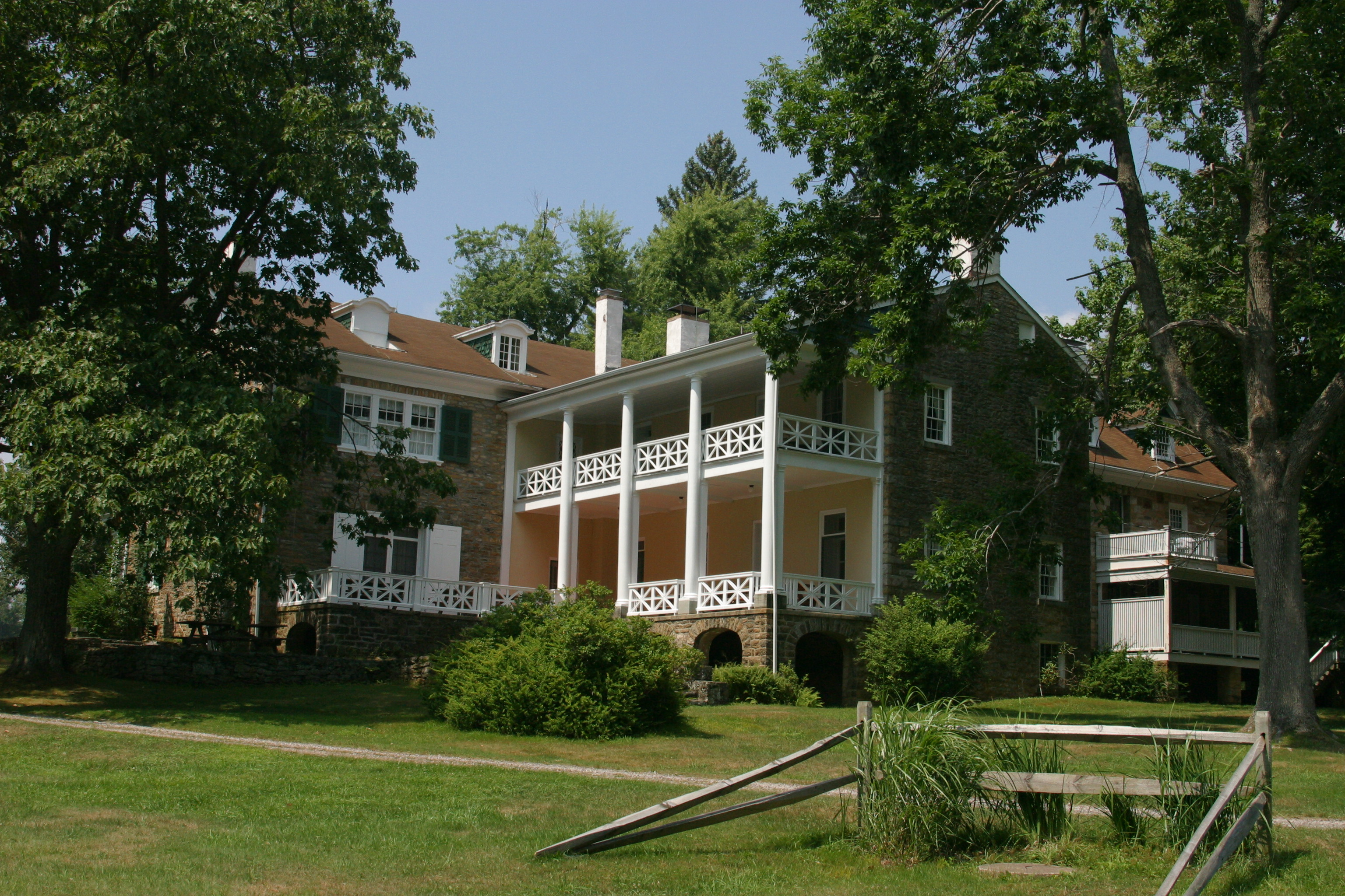 Rear facade of Stone House, the Clemuel Ricketts Mansion — located on Ganoga Lake near Lopez in Colley Township, Sullivan County, Pennsylvania, United States. Built in 1852, the Georgian mansion was added to the National Register of Historic Places on 9 June 1983.